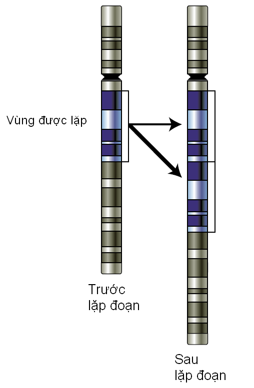 Drawing showing what happens in gene duplication. From [1] originally from [2] but it has been moved or removed; the entry "gene duplication" is gone from the Talking Glossary of Genetics. The image was brought here from enwiki Image:Gene-duplication.png. "All of the illustrations in the Talking Glossary of Genetics are freely available and may be used without special permission." [3].